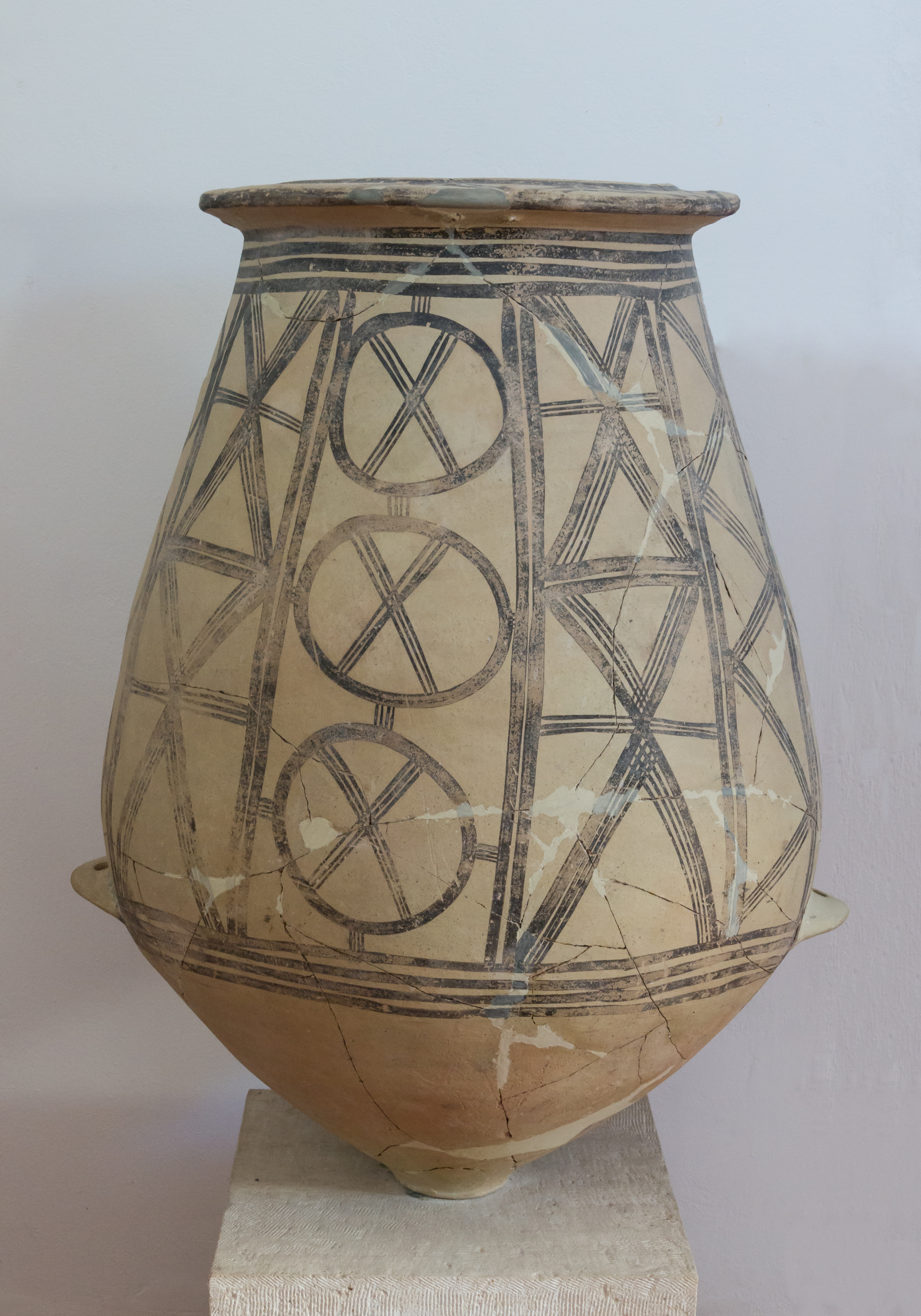 Middle Bronze Age storage jar with painted geometric decorations. (1900 - 1800 BCE) Aegina archaeological museum, Greece.